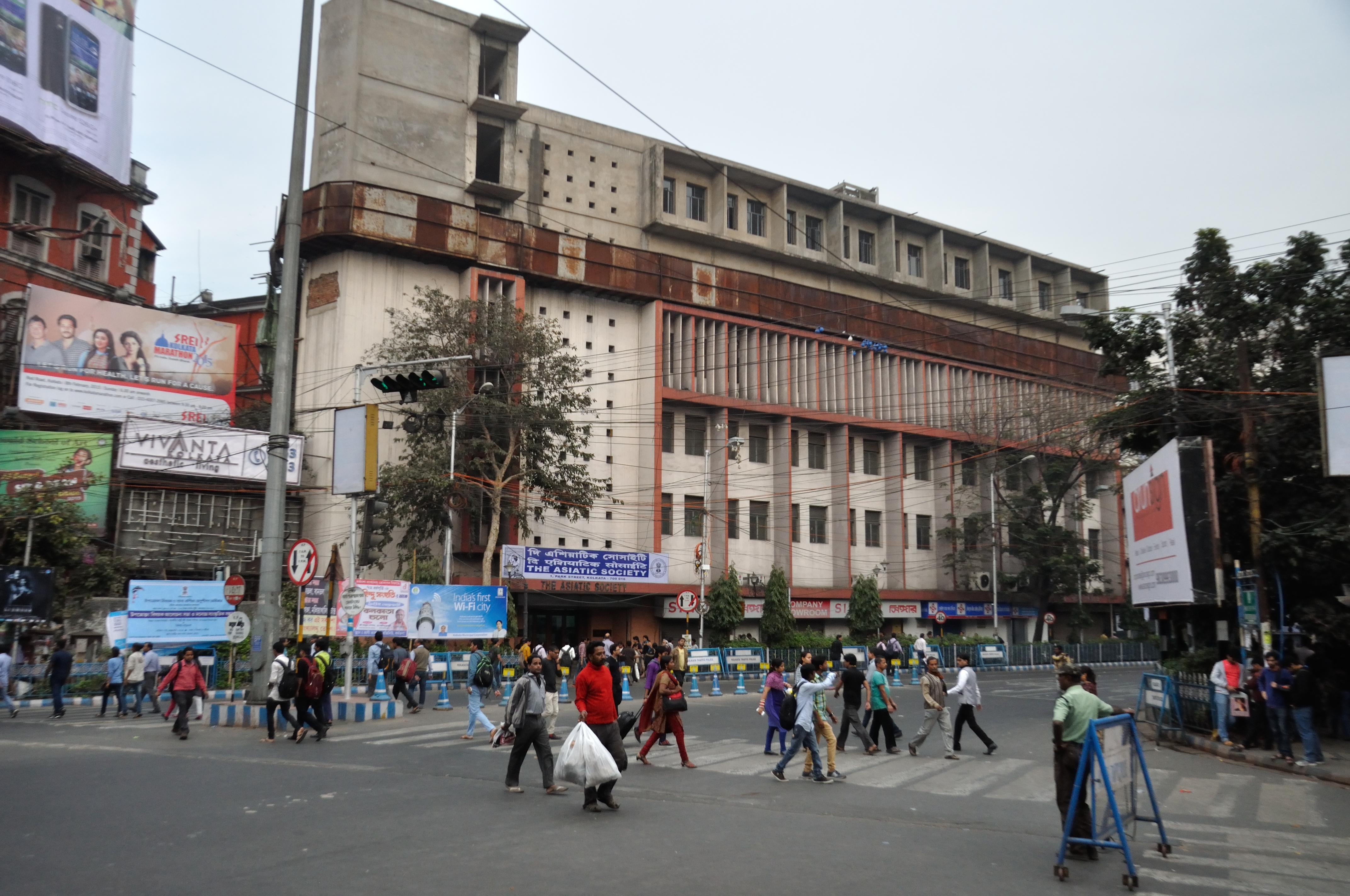 Photographed in Kolkata.